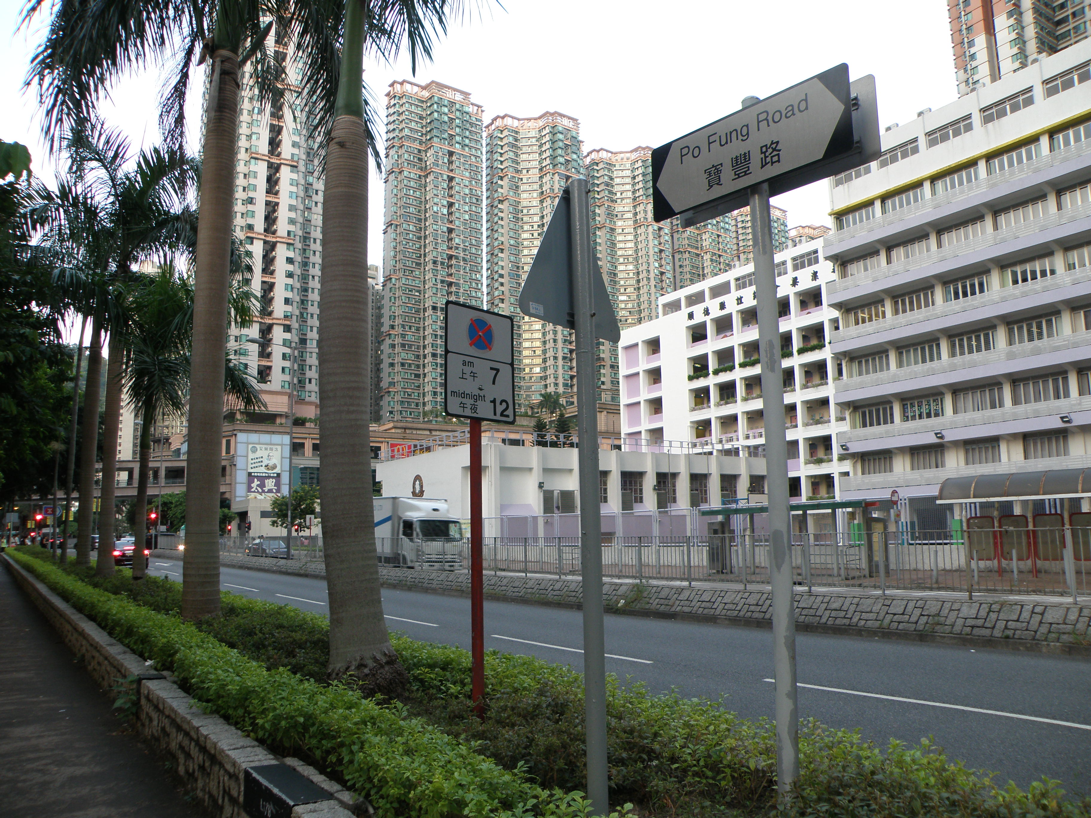 Po Fung Road in Tseung Kwan O, Hong Kong.